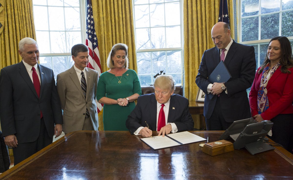 "Proud to stand alongside @POTUS as he signed an EO that will help empower Americans to make their own financial decisions & informed choices"